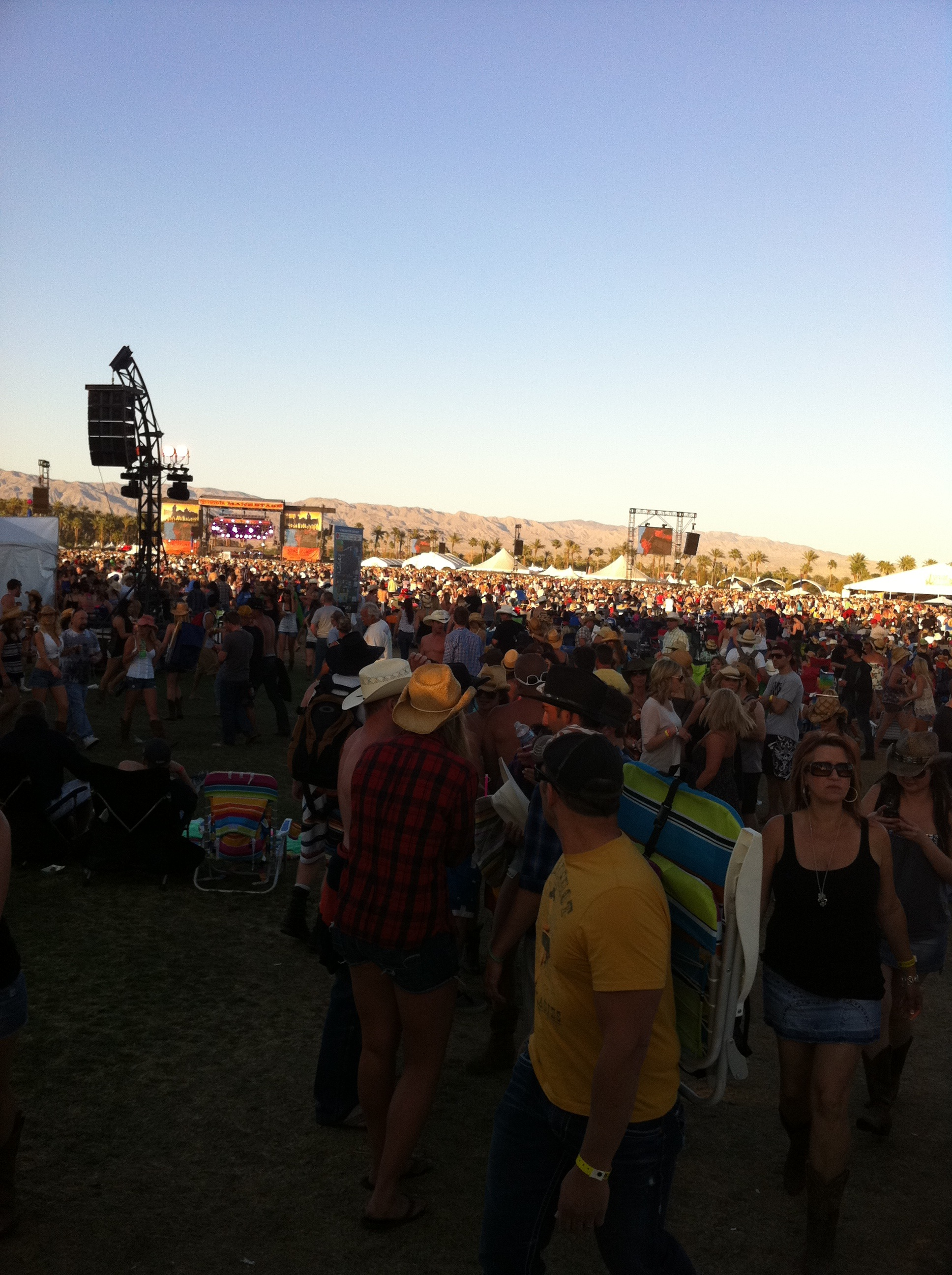 Entrance to Stagecoach Festival 2011 in Indio, California USA on April 30, 2011.